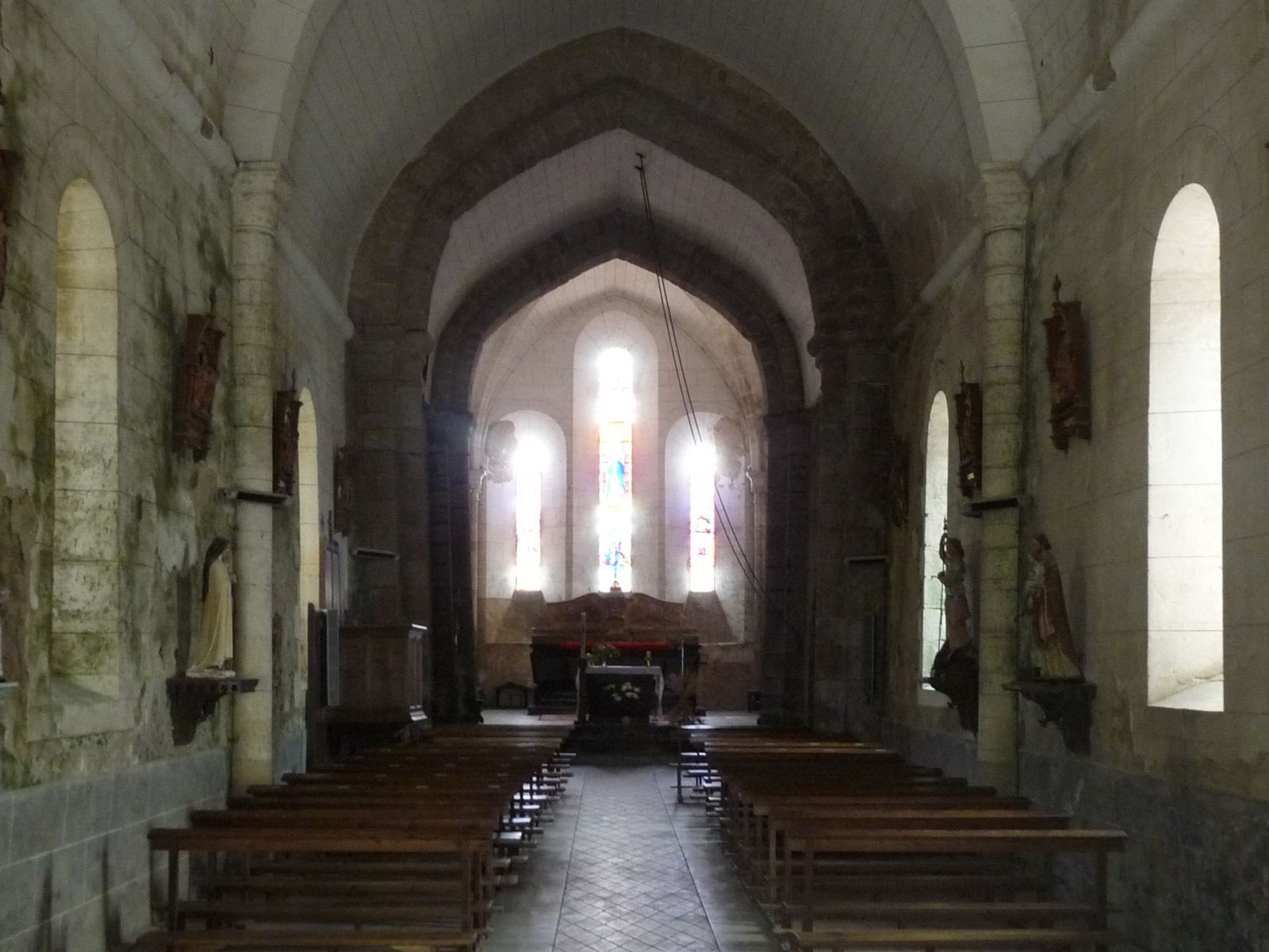 Church of Chabrac, Charente, SW France. Particularity: the pillars get further up on both sides and the nave looks broader when looking up